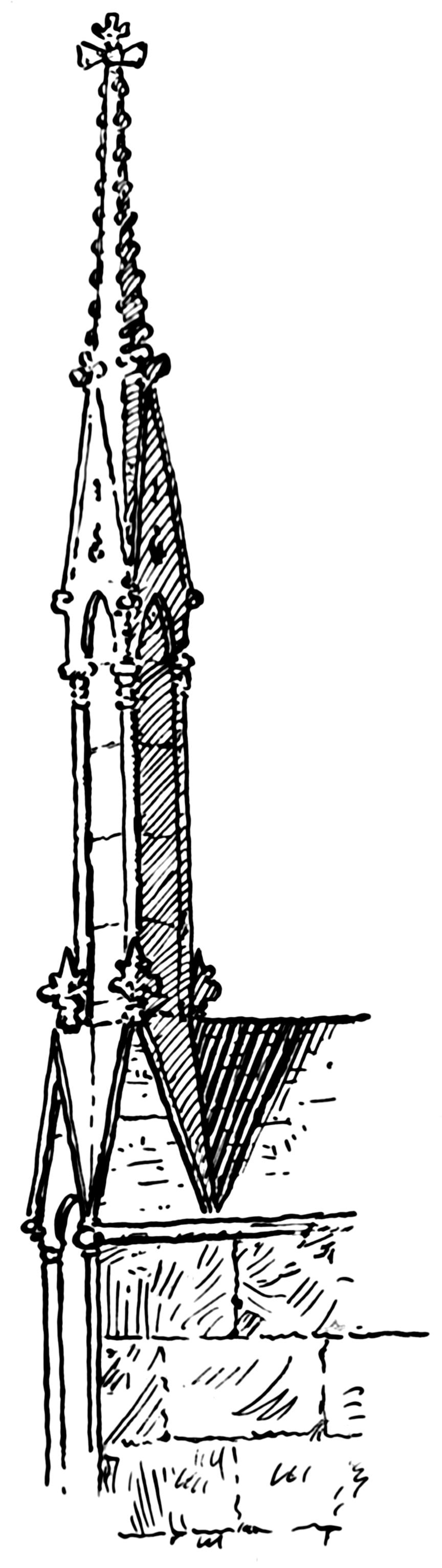 Line art drawing of pinnacle.